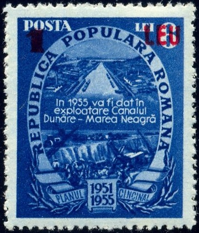 1951 postage stamp (surcharged 1952) for the 1951-55 five-year plan with inscription: "In 1955 the Danube-Black Sea Canal will come into use".